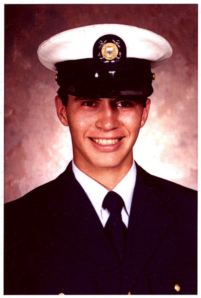 Official photo of USCG Seaman apprentice William Ray Flores}, who died while saving shipmates, had a Sentinel class cutter named after him in 2011.